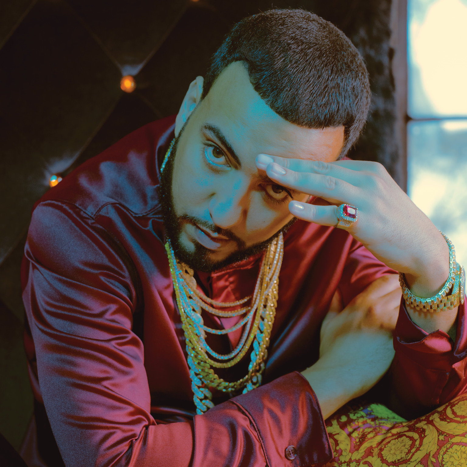 French Montana press photo 2017.